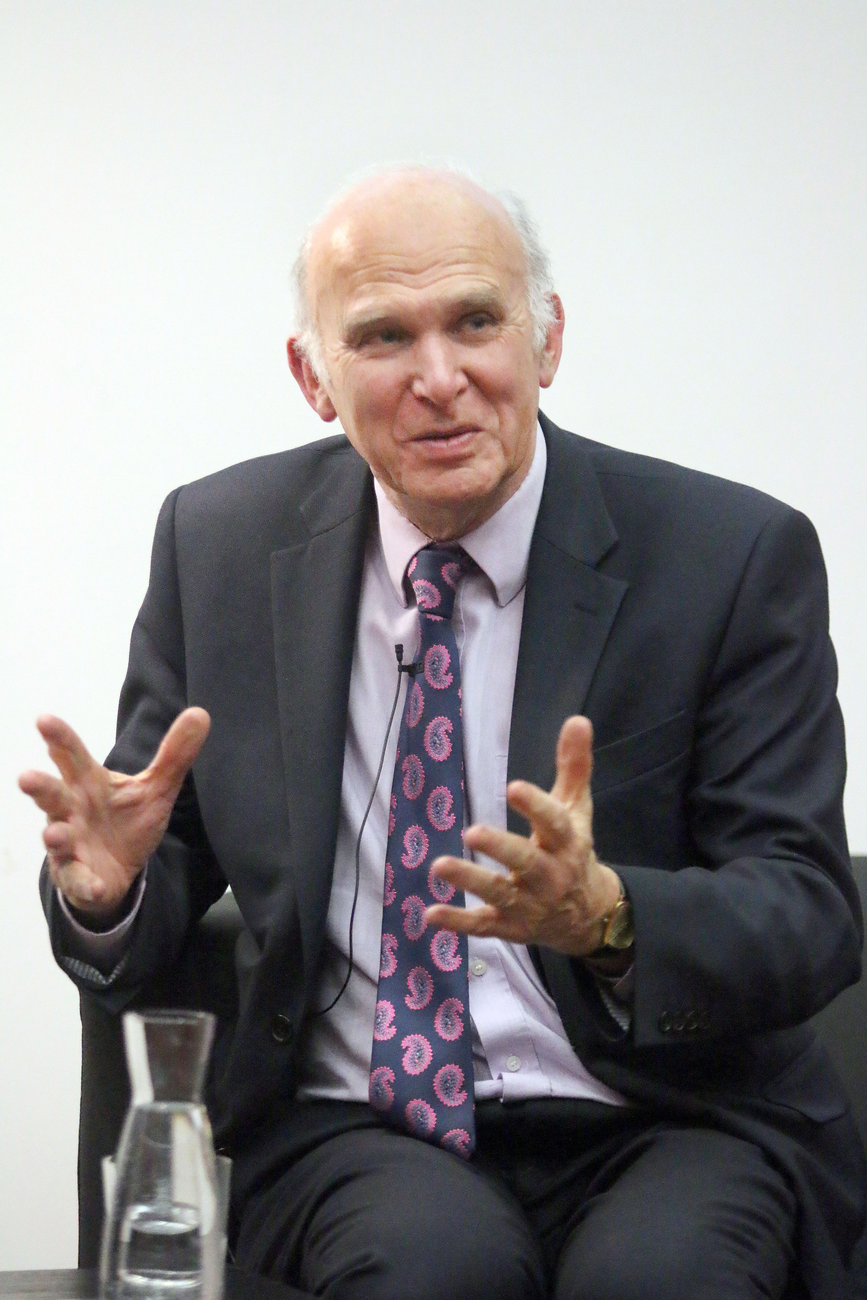 Sir Vince Cable spoke about his new book After the Storm at a special event at the Ivor Crewe Lecture Hall chaired by Professor Anthony King